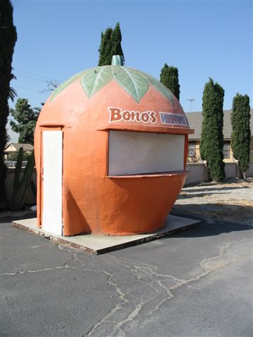 Photo of Bono's Giant Orange in Fontana, California, a Route 66 roadside fruit stand that dates from 1936.